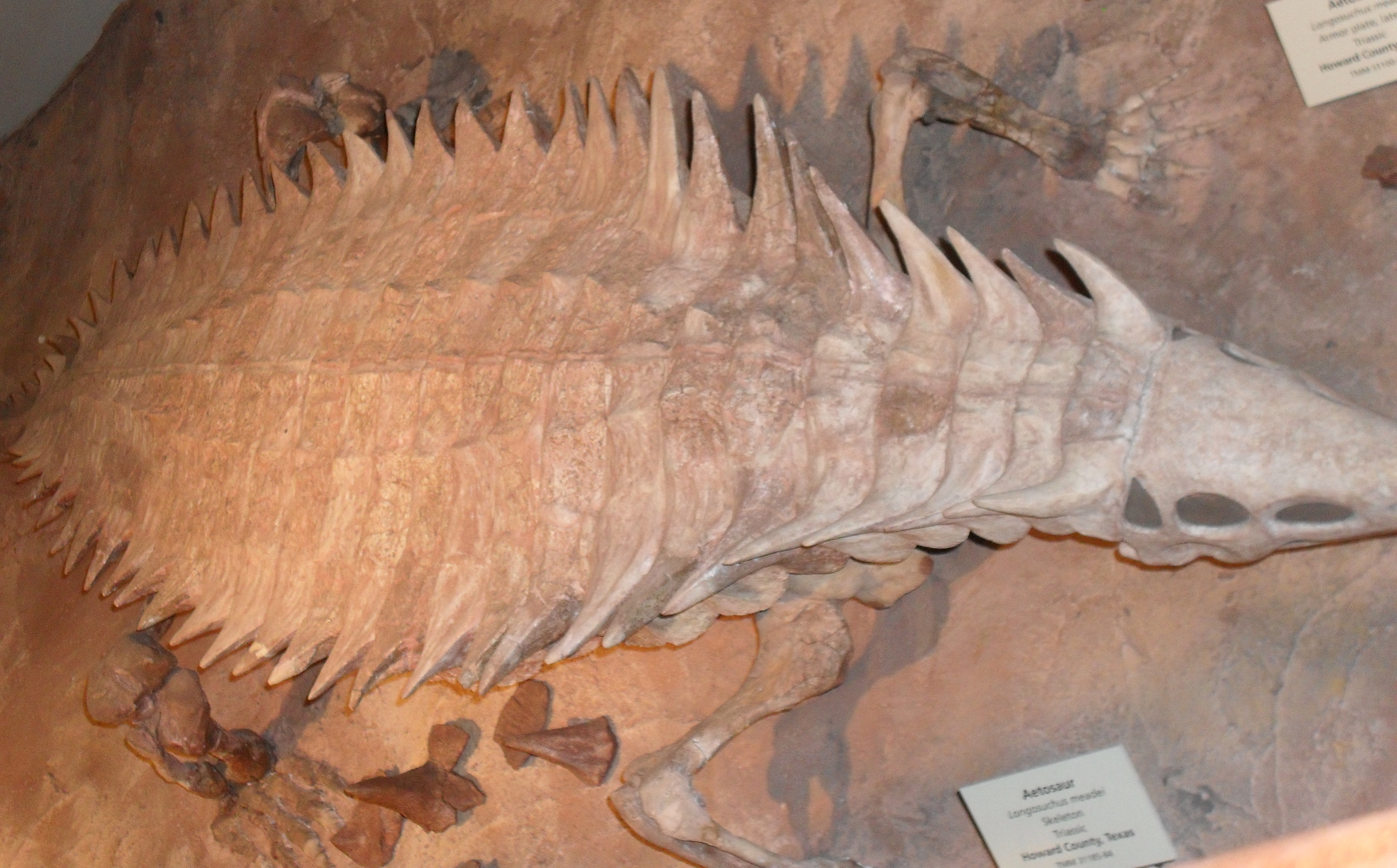 Austin Zoo